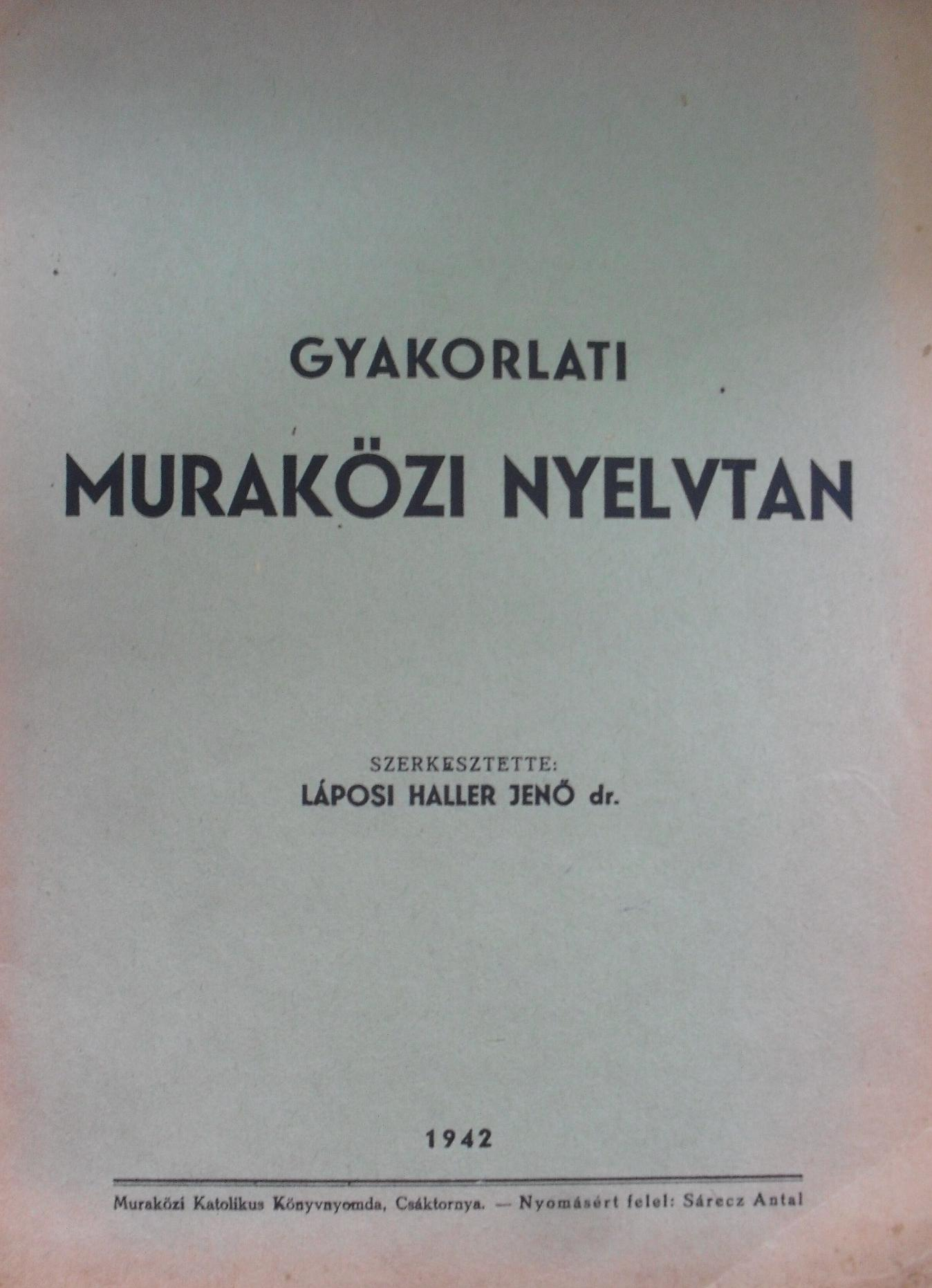 Practical grammar of the Međimurian language – by Jenő Haller Láposi (1942). Chauvinistic and propaganda grammar, attempt to the tearing of Kajkavian dialect of Međimurje in the World War II. The aim: magyarization of the Croats.